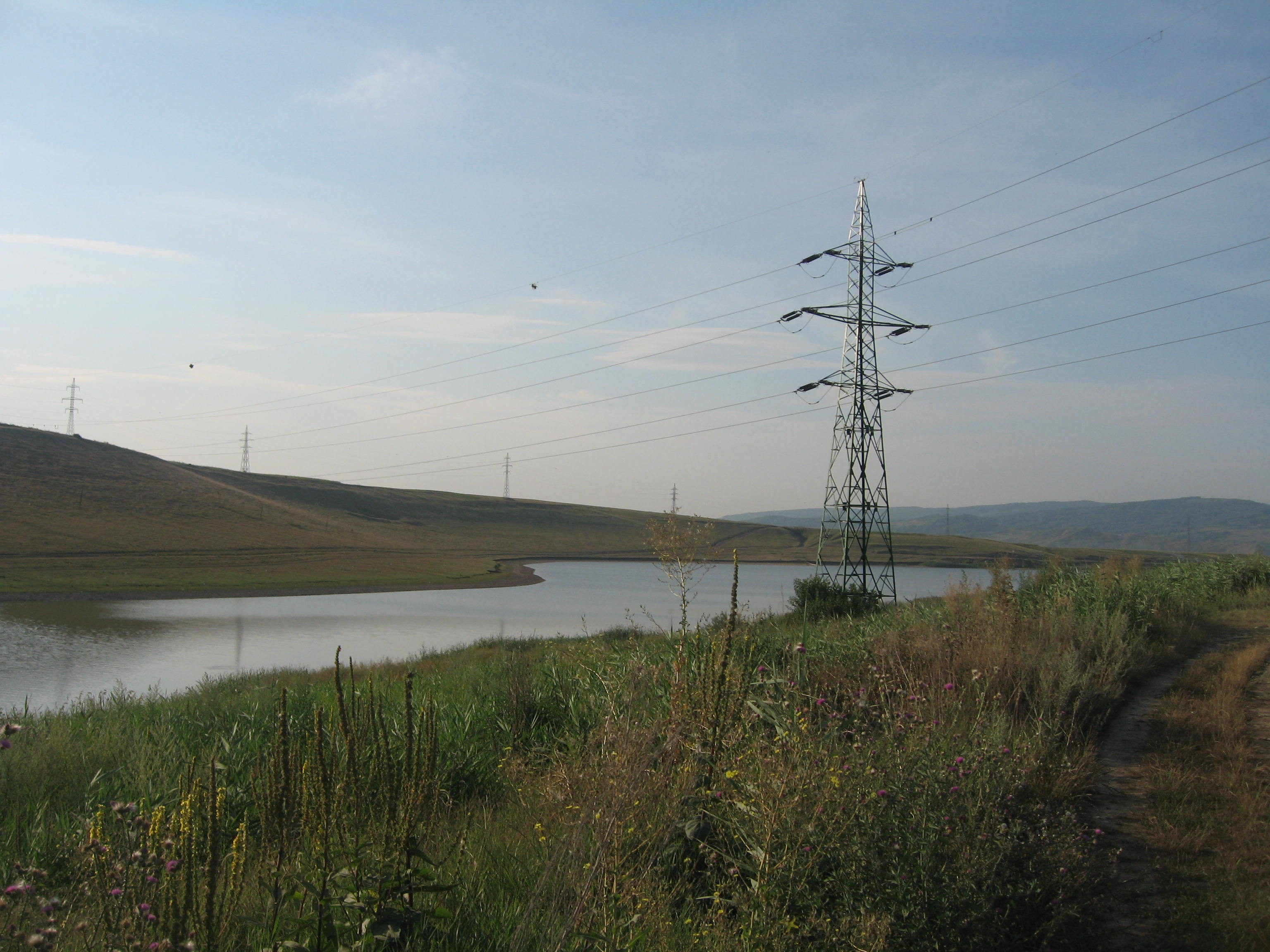 Barajul Chiriţa